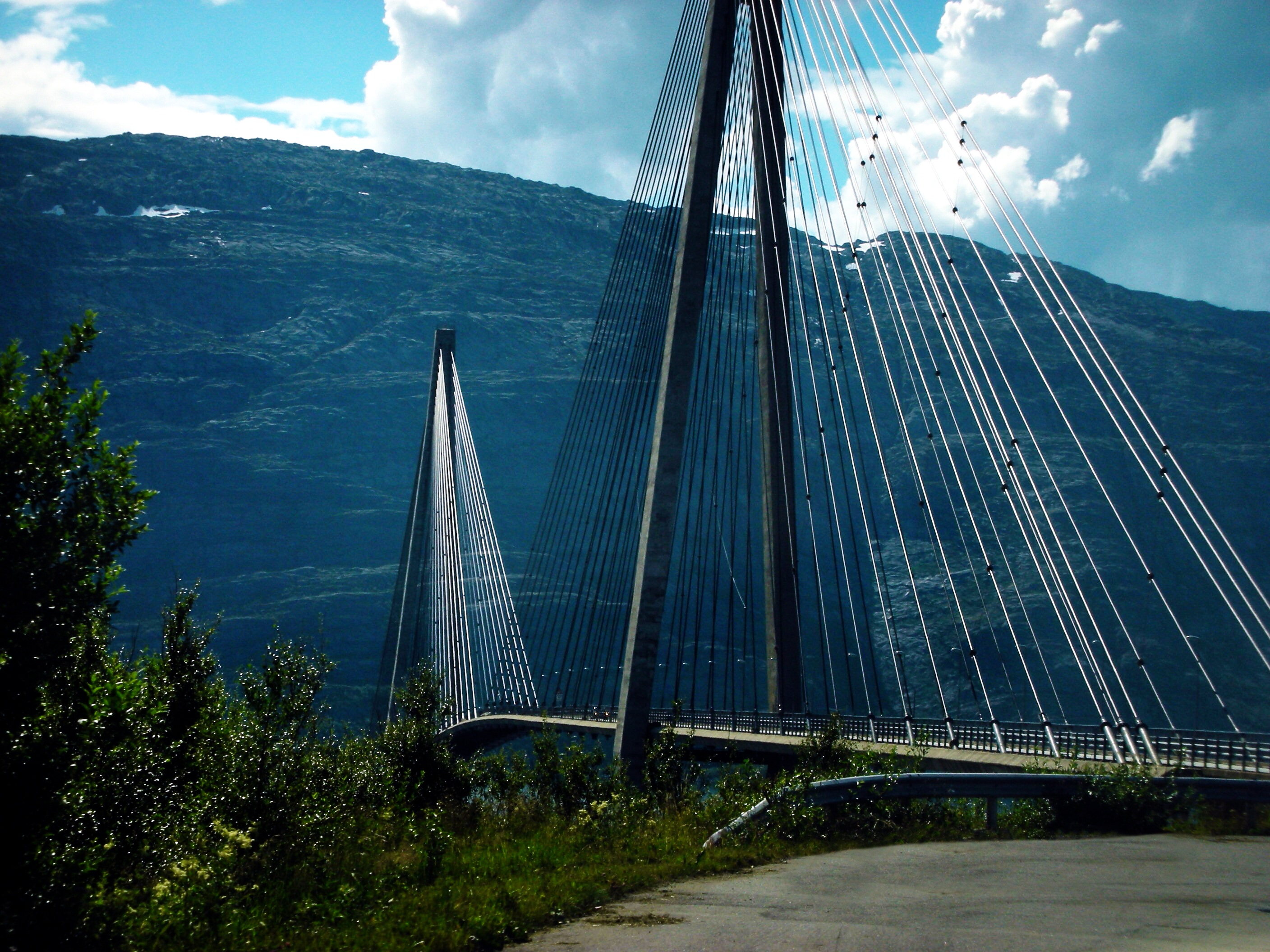 The bridge Helgelandsbrua, Norway.